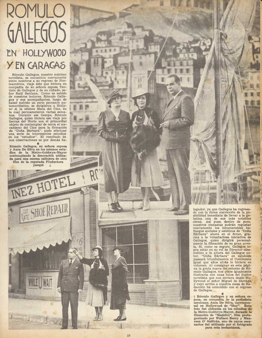 "Rómulo Gallegos in Hollywood and Caracas", article published in Elite Magazine, Caracas, 1938.